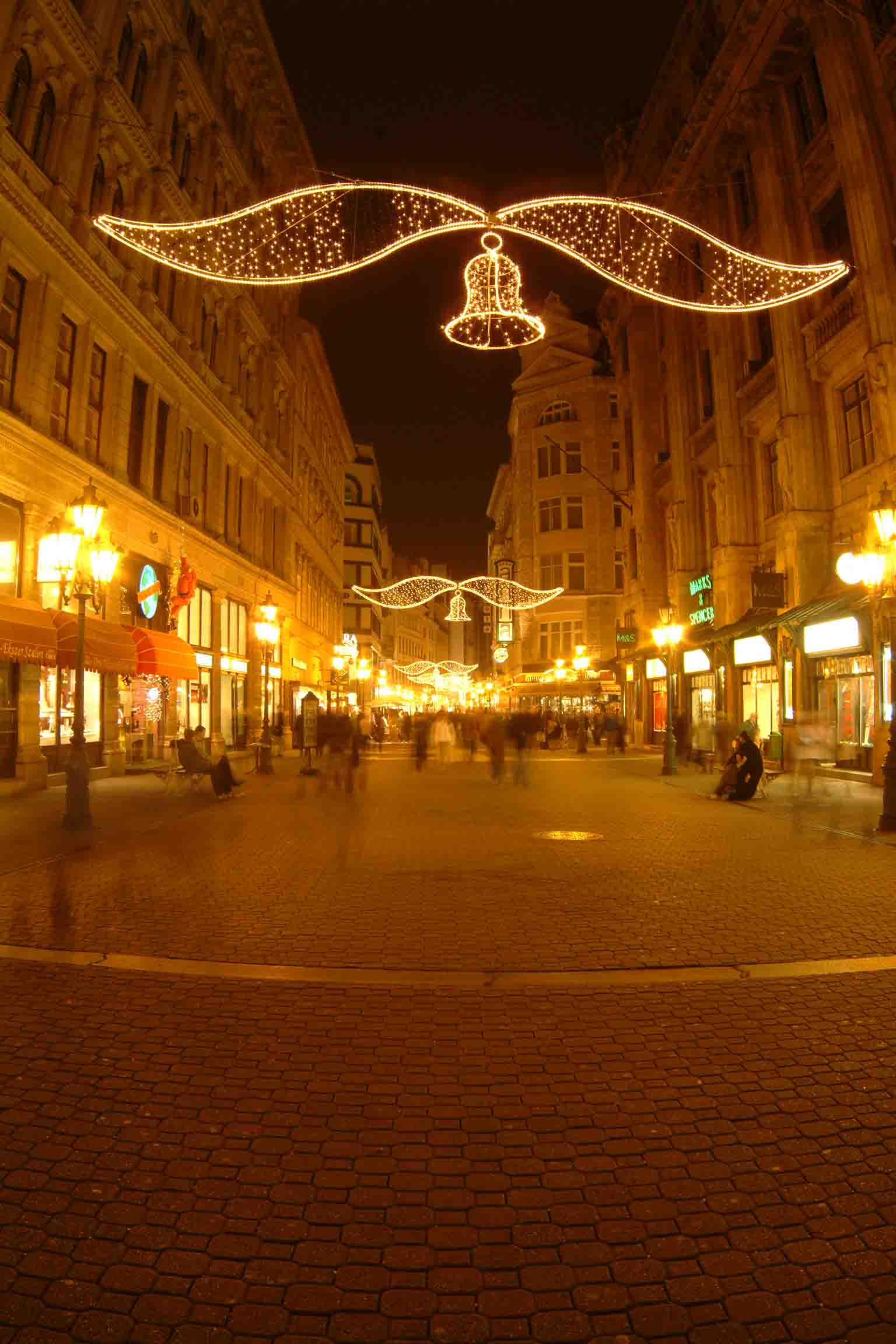 Váci utca in Christmas decoration at Budapest (2004 dec 28) Author:Vince